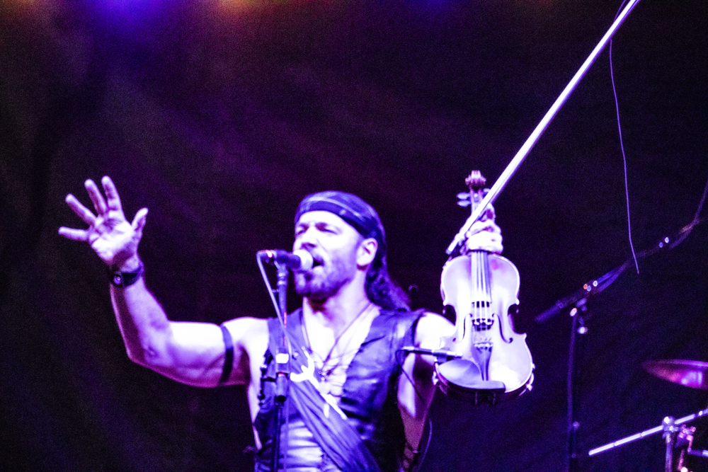 Scott Jeffers Traveler - Traveler concert in Tucson , AZ , US